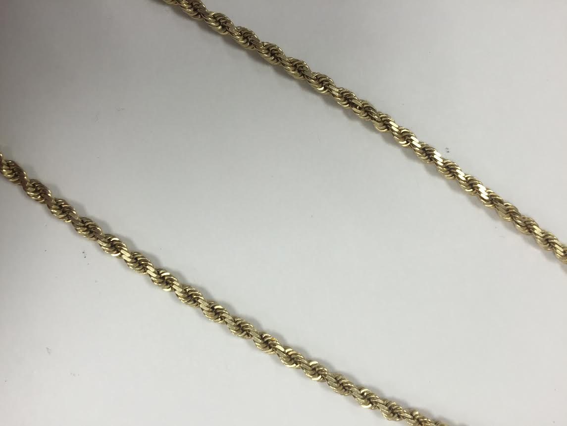 14 karat gold rope chain